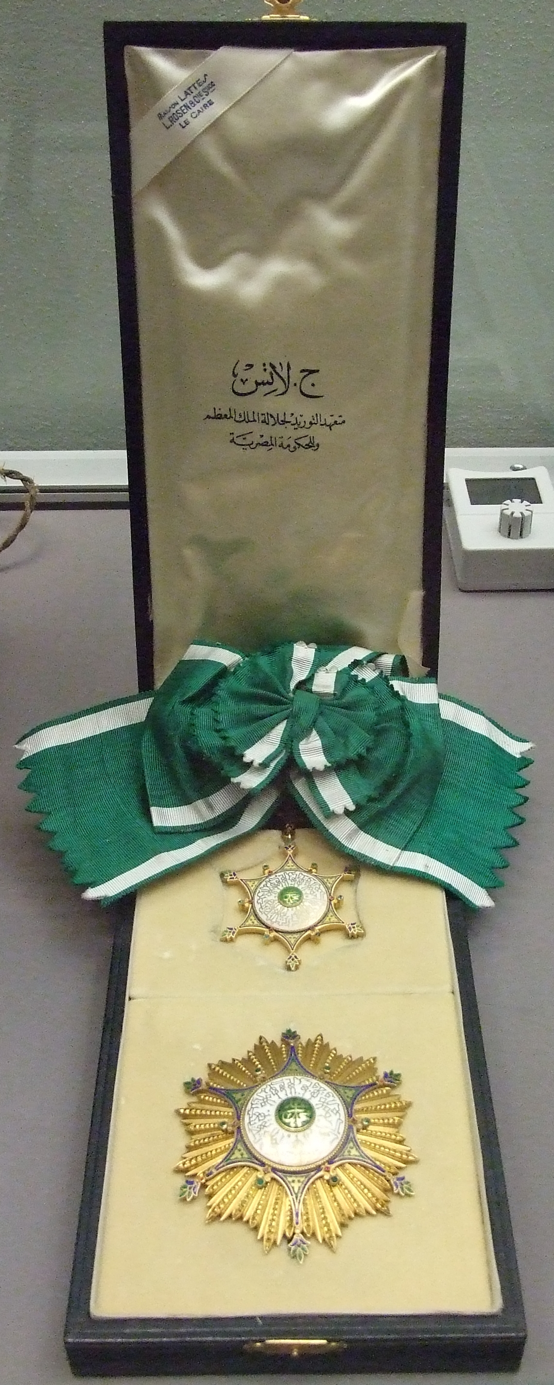 Order of Muhammad Ali – The Republic exhibition, National Museum in Prague